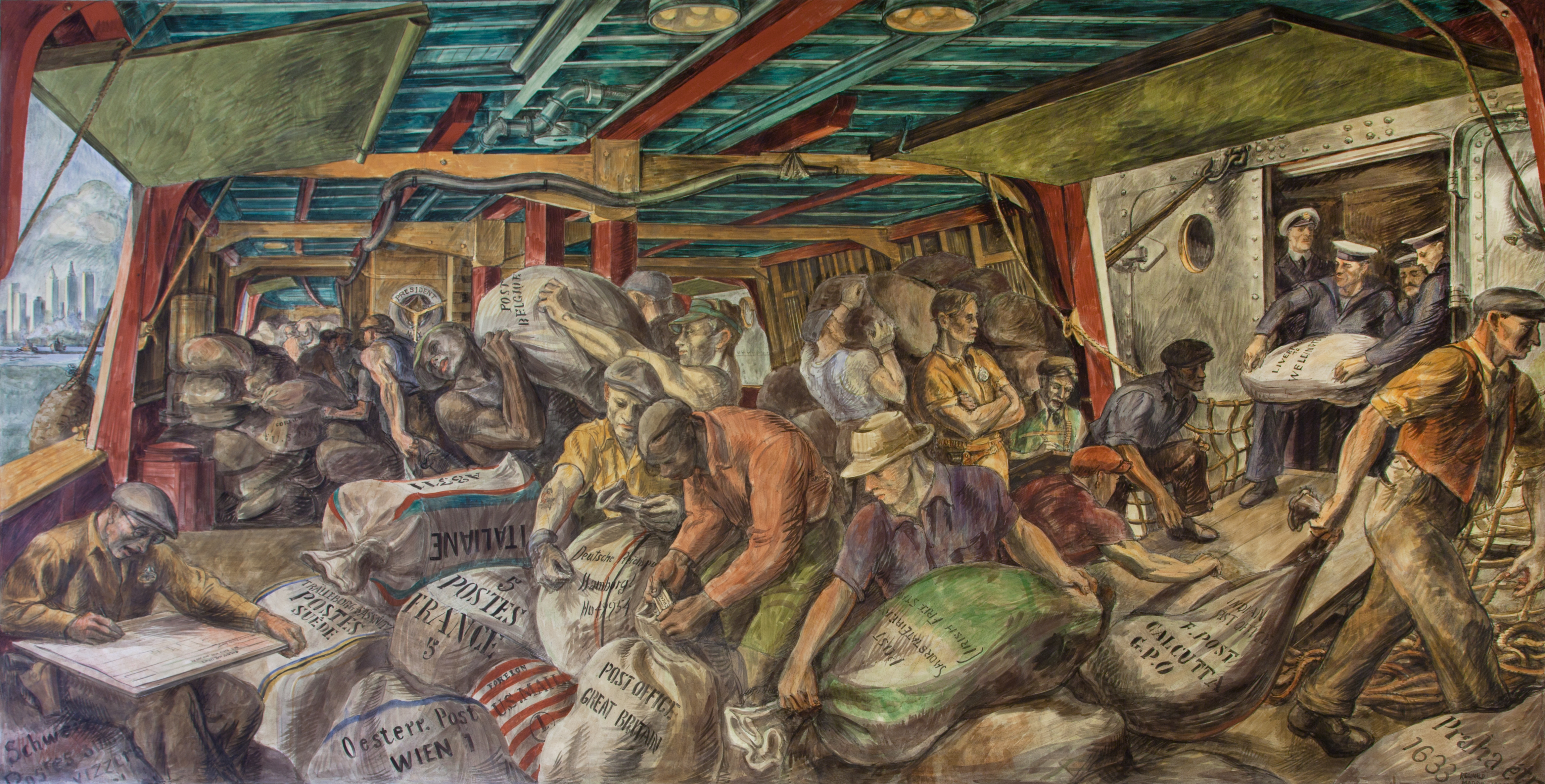 Photograph of mural "Unloading the Mail" by Reginald Marsh at the Ariel Rios Federal Building, Washington, D.C.Notes: Date: 1936; dimensions: 6'7" x 12' 6". Photographed as part of an assignment for the General Services Administration. Title, date and keywords from information provided by the photographer. Credit line: Photographs in the Carol M. Highsmith Archive, Library of Congress, Prints and Photographs Division. Gift; Carol M. Highsmith; 2009; (DLC/PP-2009:083). Forms part of: Photographs in the Carol M. Highsmith Archive. More information at The Living New Deal Mural information from the General Services Administration: Unloading the Mail emphasizes the international communication allowed by the exchange of mail. Marsh was inspired by his visits to RMS Berengaria docked in New York harbor. The ship was one of the largest in the Cunard Line, a transatlantic shipping company dating back over a century, which brought mail to American shores from around the globe. It is clear from his sketches that Marsh closely observed the exterior of the ship, but in the mural he focused on the activities that occurred in the harbor boat. Mailbags from France, Austria, Sweden, Great Britain, Italy, Switzerland, and India are being transferred from the ocean liner onto a harbor boat that will take the cargo to shore for distribution. The recently enhanced New York skyline can be glimpsed out the window on the left and, in the mural's lower left corner, a man takes careful note of the mail being received.